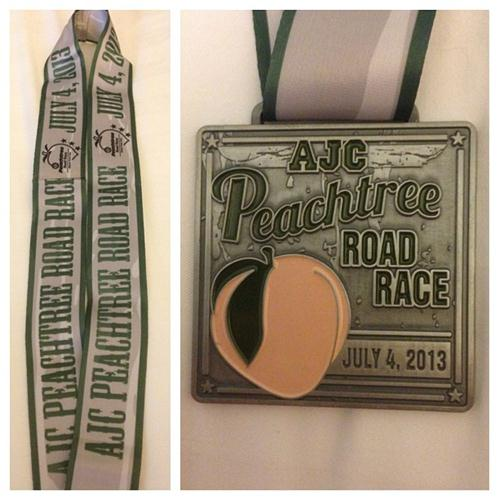 The first ever winners medial of the AJC Peachtree Road Race. The medal was produced for the winners of peachtree Road Race's first ever sanctioned U.S. Championship race devision that took place the year of 2013.